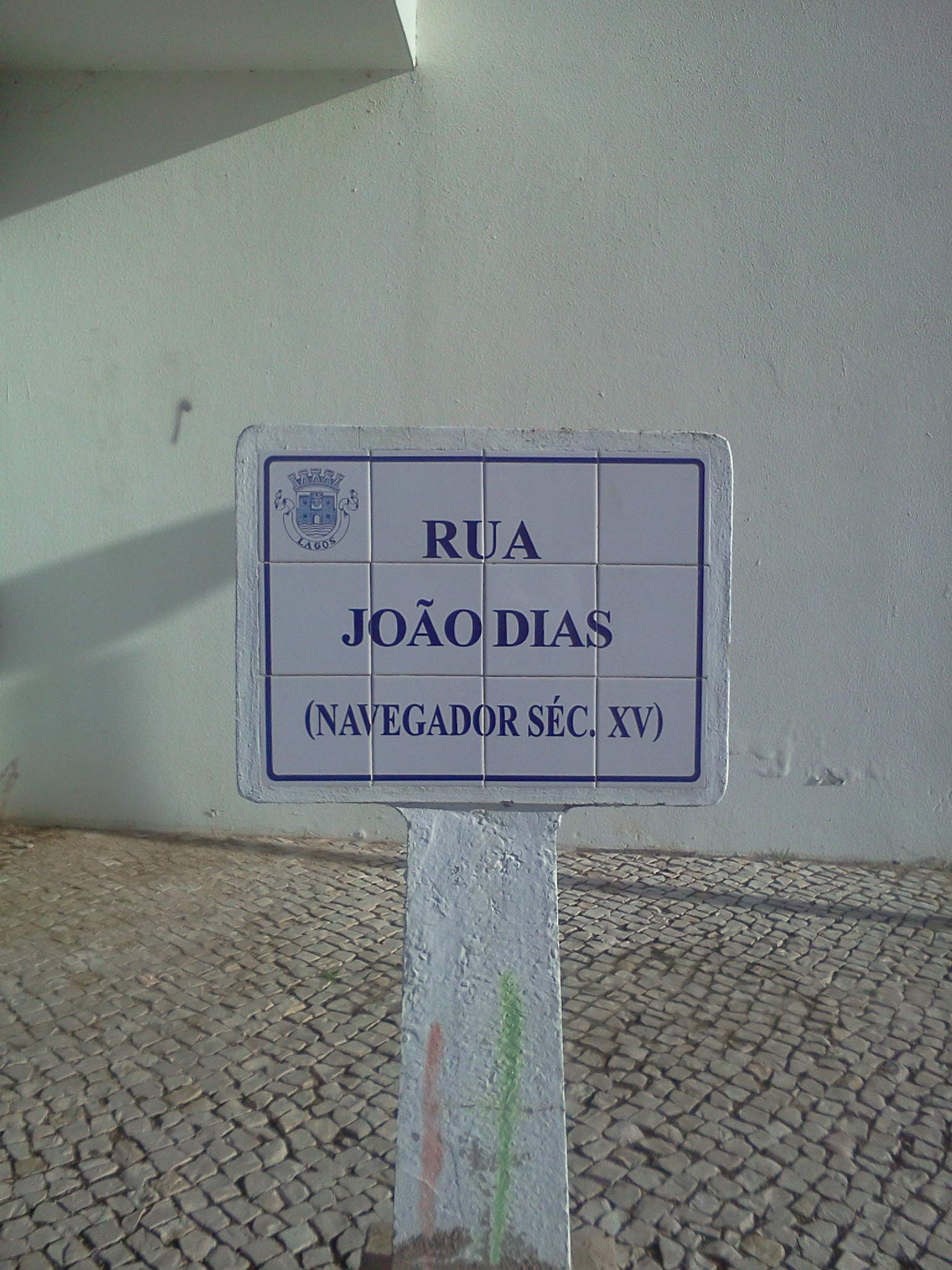 Street sign of Rua João Dias, in the city of Lagos, in southern Portugal.